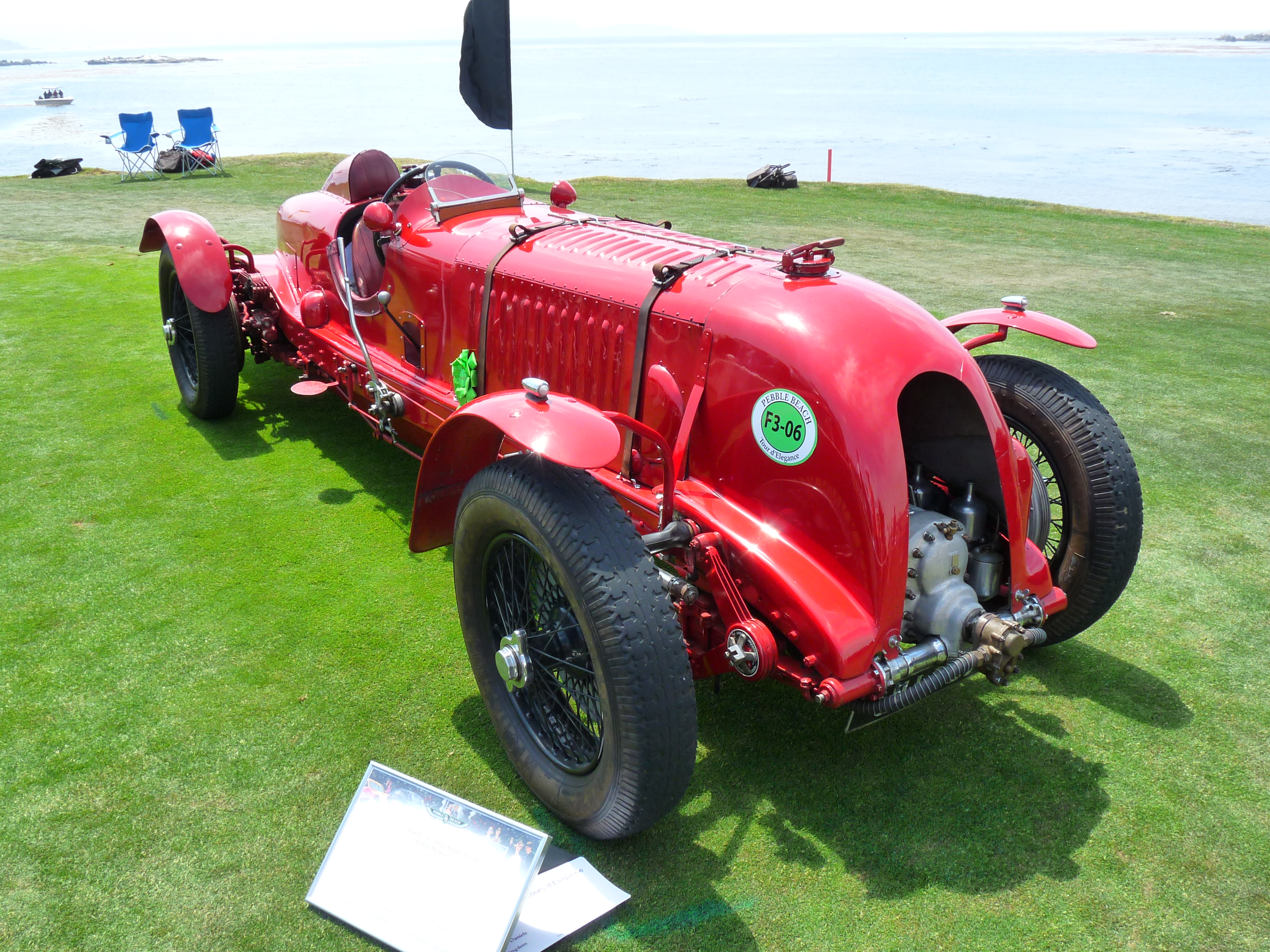 Sir Henry « Tim » Birkin red "Blower" Bentley « Monoposto » at Pebble Beach Concours d'Elegance.